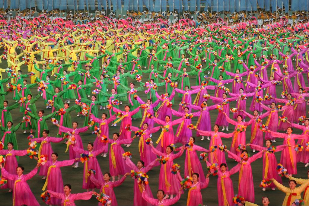 Dancers perform during the Mass-Games (Arirang), May Day Stadium in Pyongyang, North Korea.